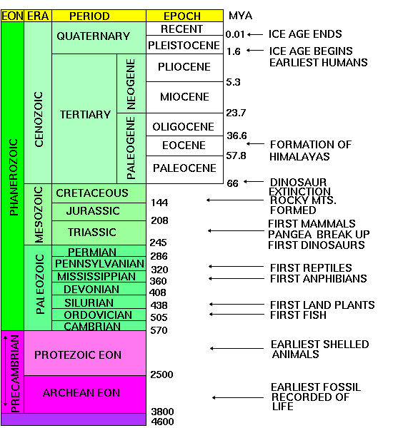 Geologic timescale